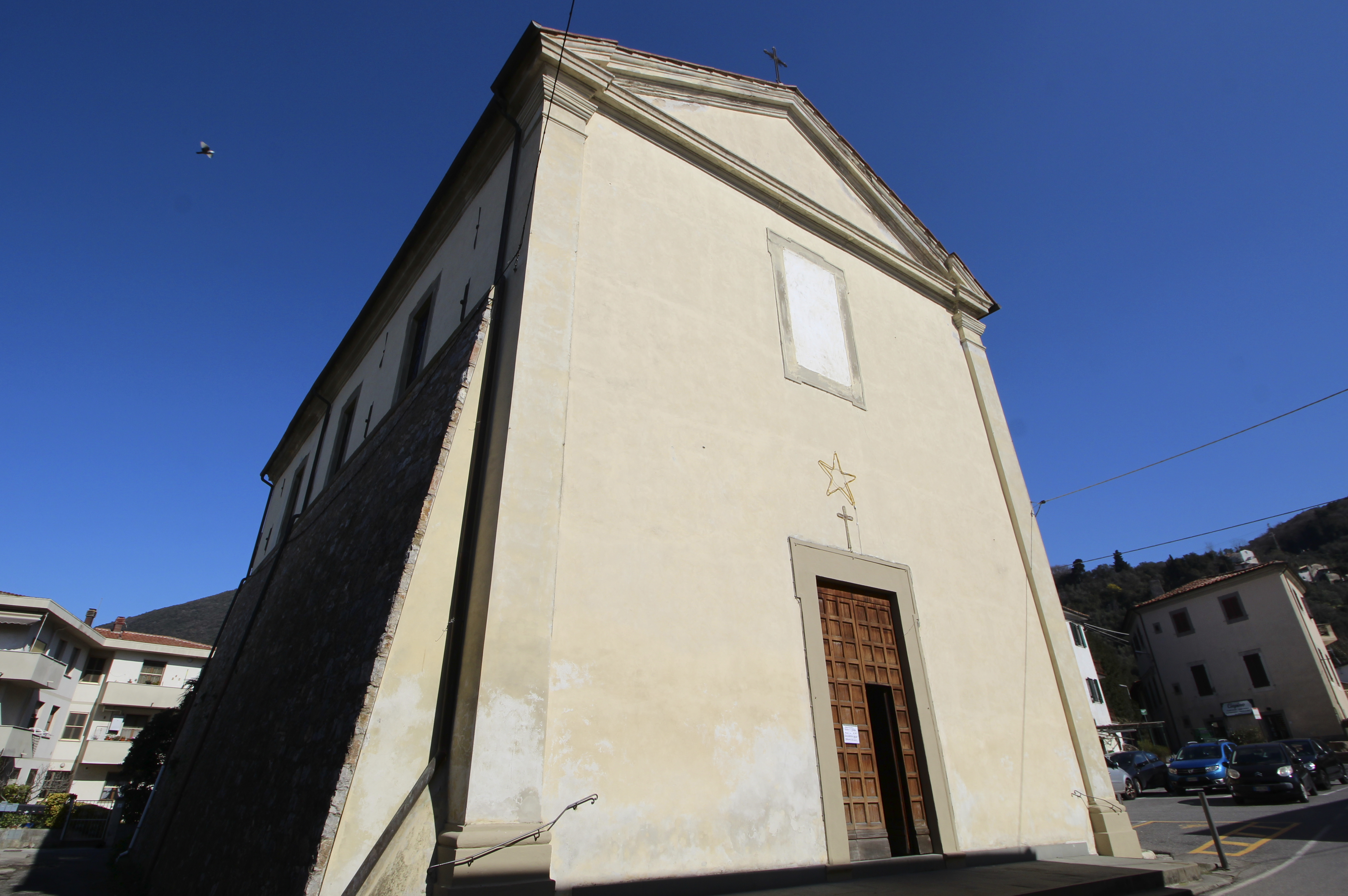 Church Santi Lucia e Fabiano, Molina di Quosa, hamlet of San Giuliano Terme, Province of Pisa, Tuscany, Italy